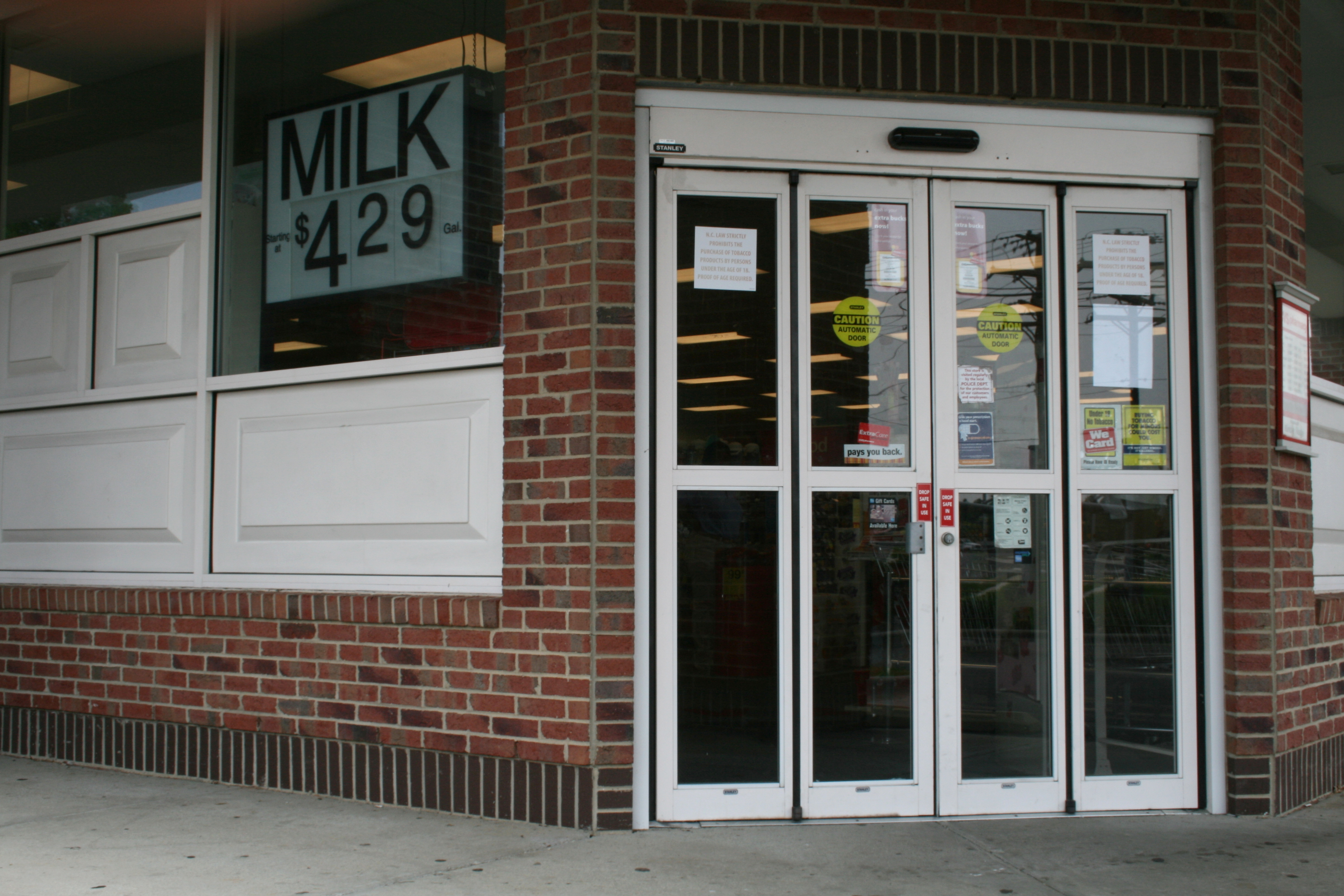 Automatic sliding door entrance to CVS/pharmacy on Garrett Road in Durham, North Carolina.